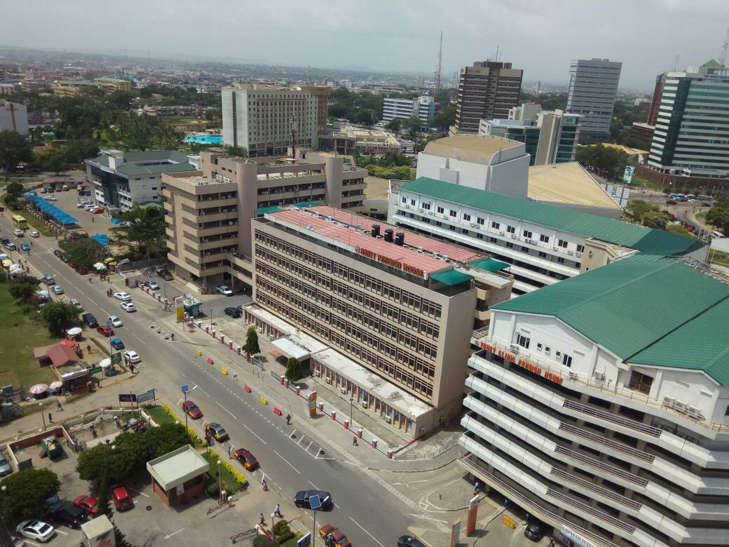 I took this picture standing on a tall building just to see the beauty of Accra, the capital town of my beloved country, Ghana